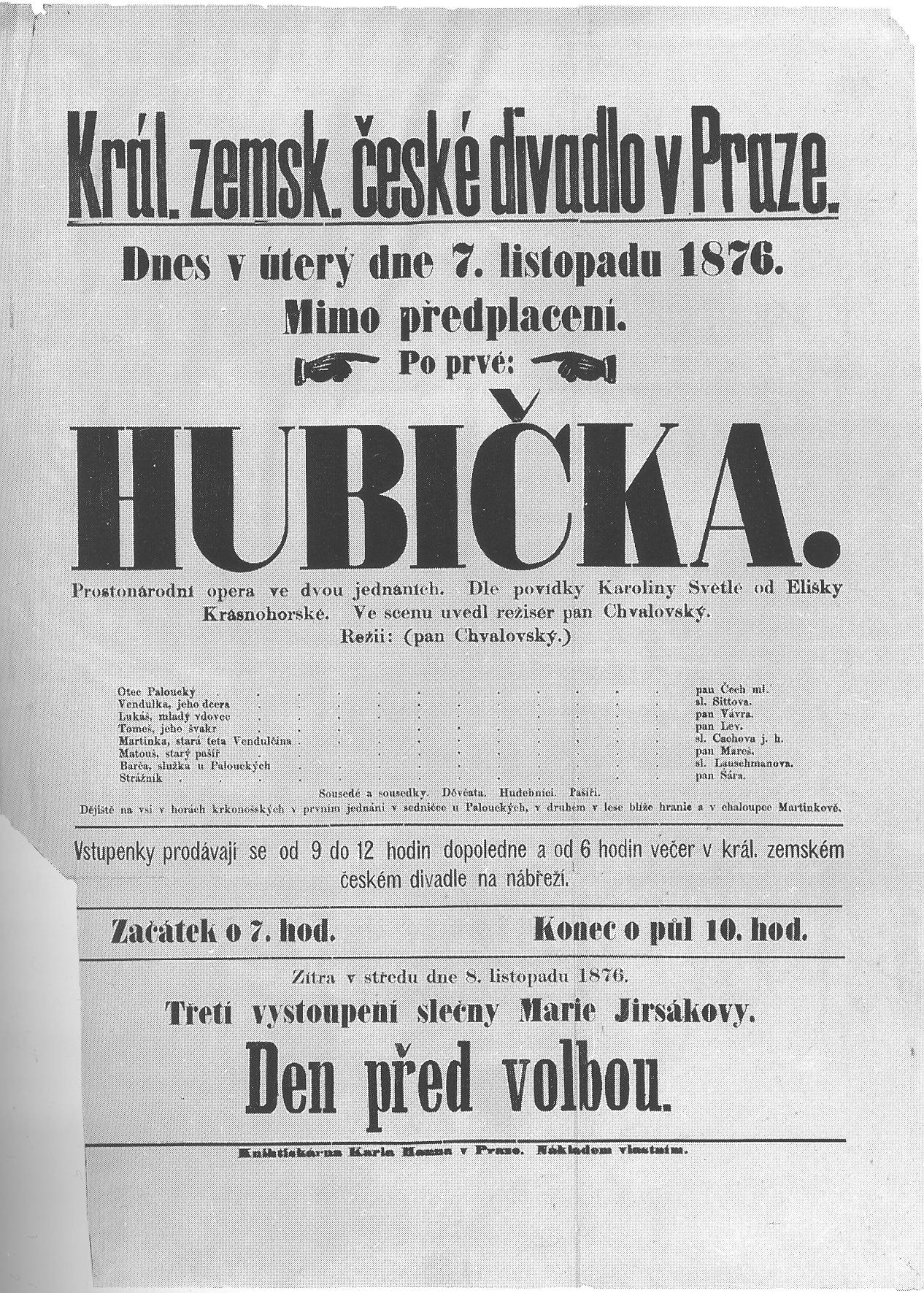 Theater poster for the world premiere of Smetana's The Kiss (1876)